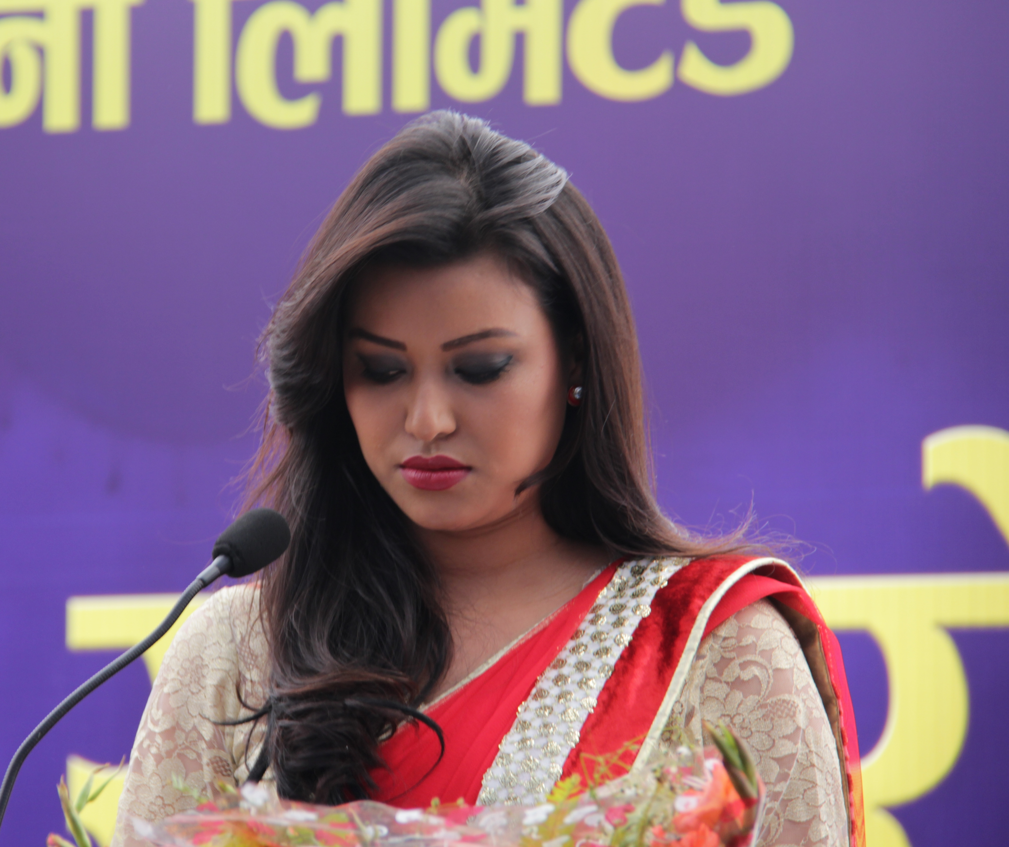 Malina Joshi at the Anniversary of Nepal Telecom